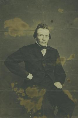 Paul Botten-Hansen (1824-1869), Norwegian writer, literary critic and librarian.